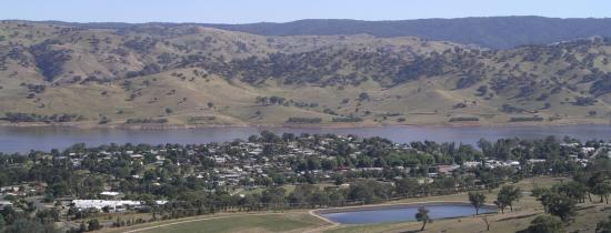 Tallangatta from the lookout hill. Taken by Robert Merkel in January 2004 and placed in the public domain by the copyright holder.